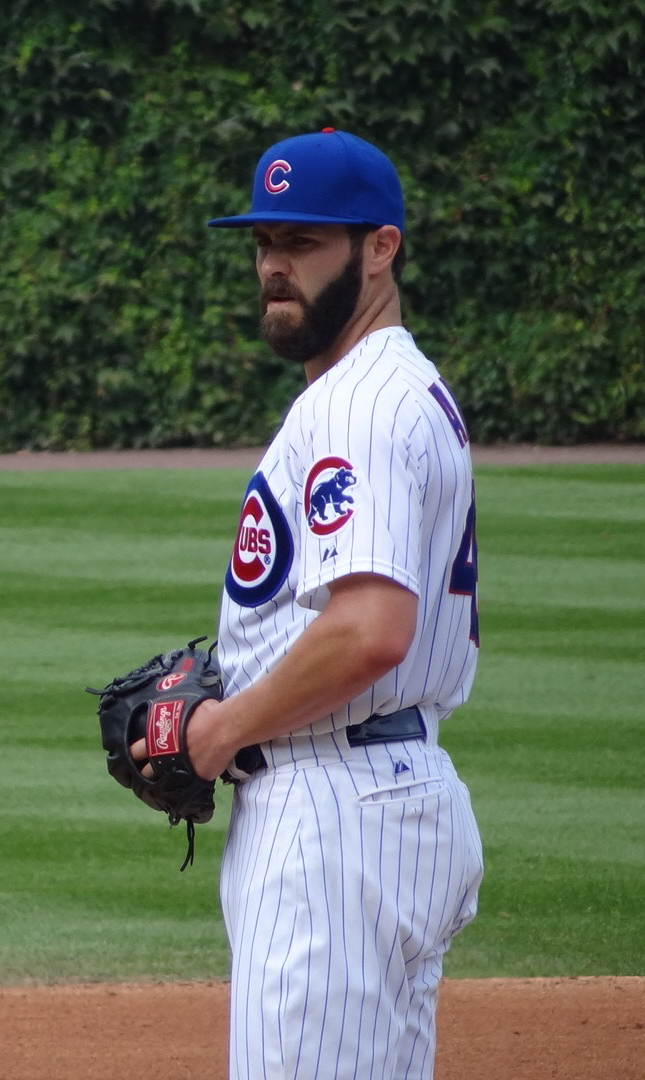 Jake Arrieta in September 2015